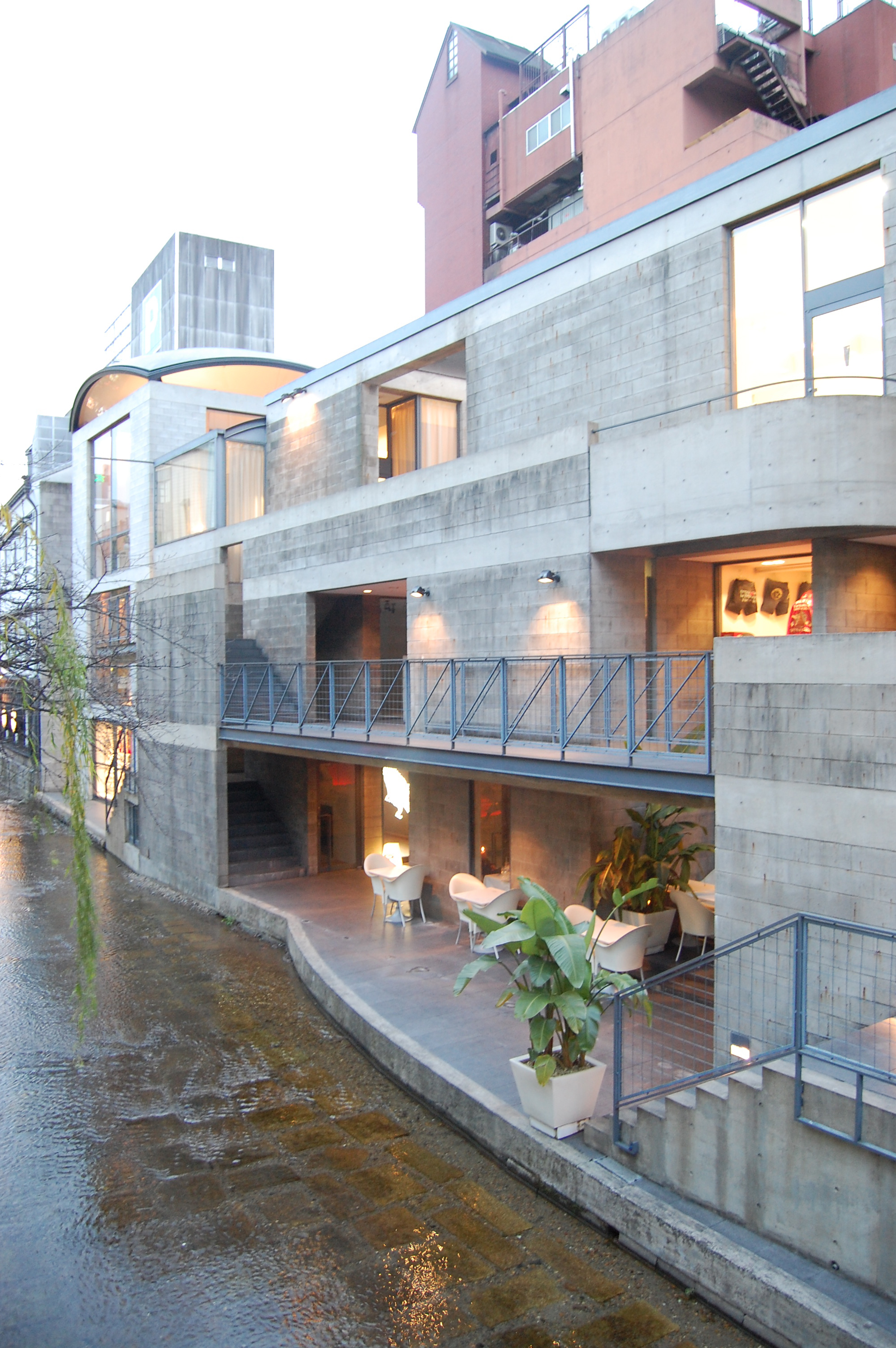 Times Commercial Gallery in Kyoto